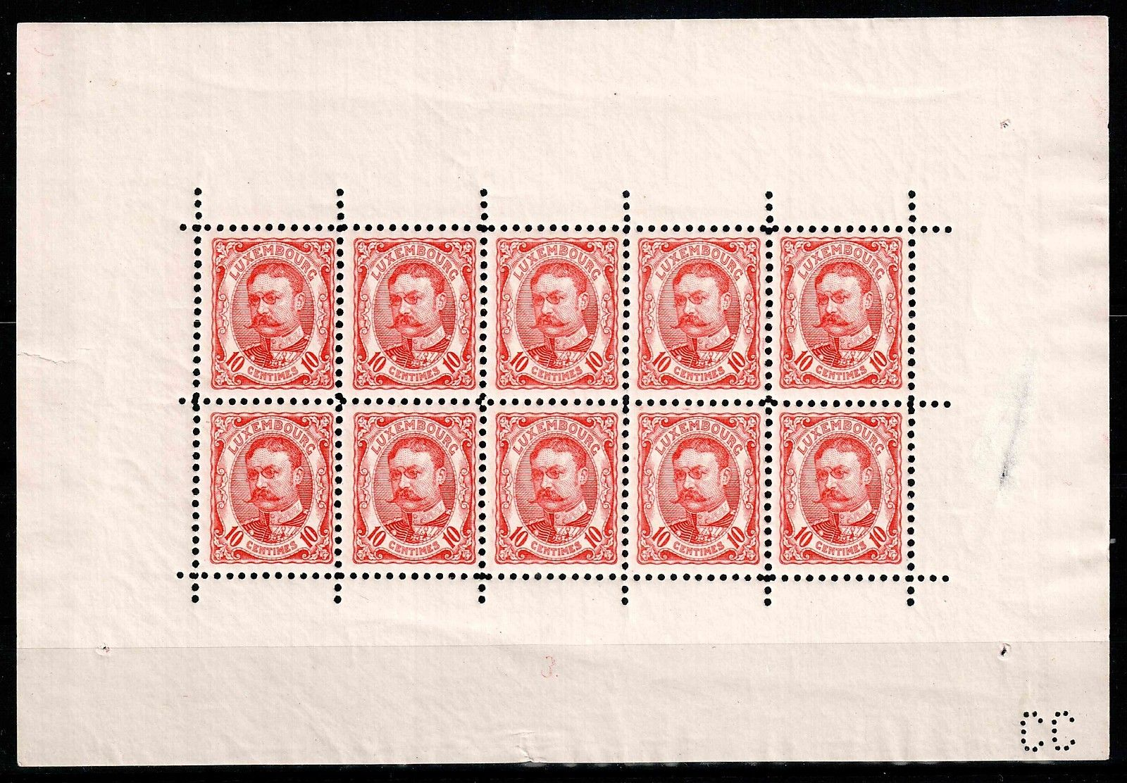 First miniature sheet of the world, Luxembourg, 10 centimes x 10, 1906. William IV, Grand Duke of Luxembourg